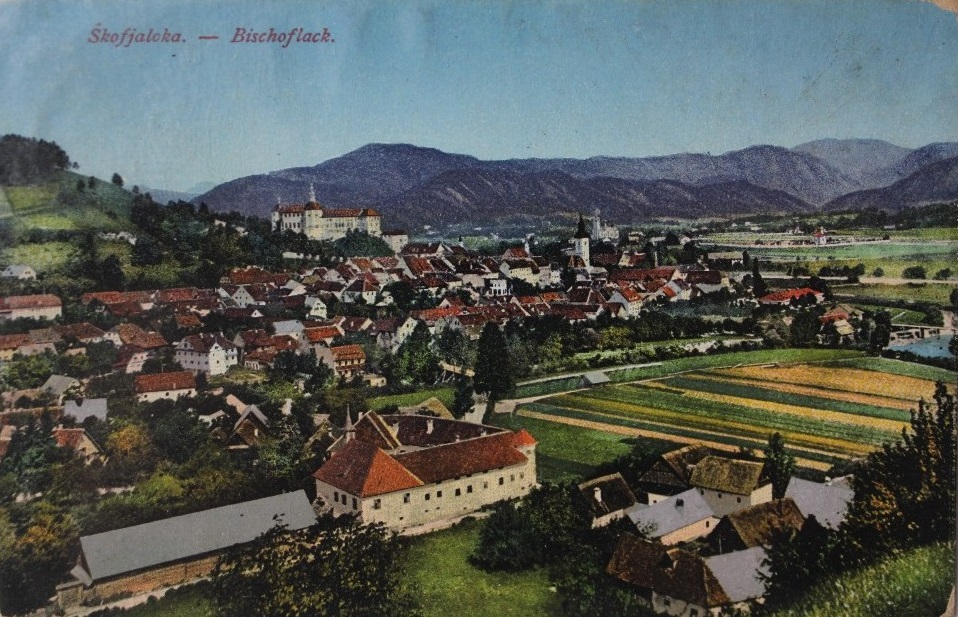 Panorama of Škofja Loka (Slovenia) c. 1910. At the time, Škofja Loka, called Bischoflack in German, was part of the Austrian province of Carniola. Prior to 1803, Škofja Loka had been a possession of the Prince-Bishopric of Freising for about 800 years. The large palace in the background housed the bishop's governor and his administration. Postcard issued c. 1910.